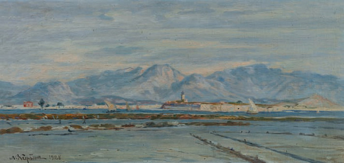 Russian and Greek painter Nikolaos Himonas (1866-1929):Mesolongion